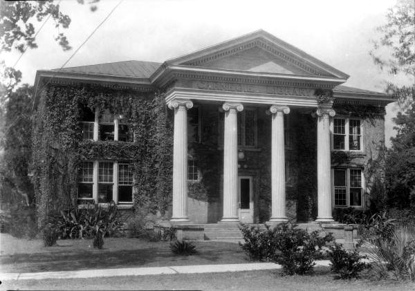 Local call number: AD044 Title: Carnegie Library at Florida A&M University: Tallahassee, Florida Date: ca. 1930 General note: The Carnegie Library was built on the campus of Florida A&M University in 1908. It was the first Carnegie Library built at a black land-grant college. In 1976, the Southeastern Regional Black Archives Research Center and Museum was founded at the Carnegie Library. The facility was expanded in 2006 and renamed for United States Congresswoman Carrie P. Meek and Dr. James N. Eaton, founder of the Black Archives. The building was listed on the National Register of Historic Places in 1978. Physical descrip: 1 slide - col. Series Title: General Collection Repository: State Library and Archives of Florida, 500 S. Bronough St., Tallahassee, FL 32399-0250 USA. Contact: 850.245.6700. Persistent URL: Visit Florida Memory to see more images of the Carnegie Library at FAMU. To learn more, visit the Black Archivesonline.